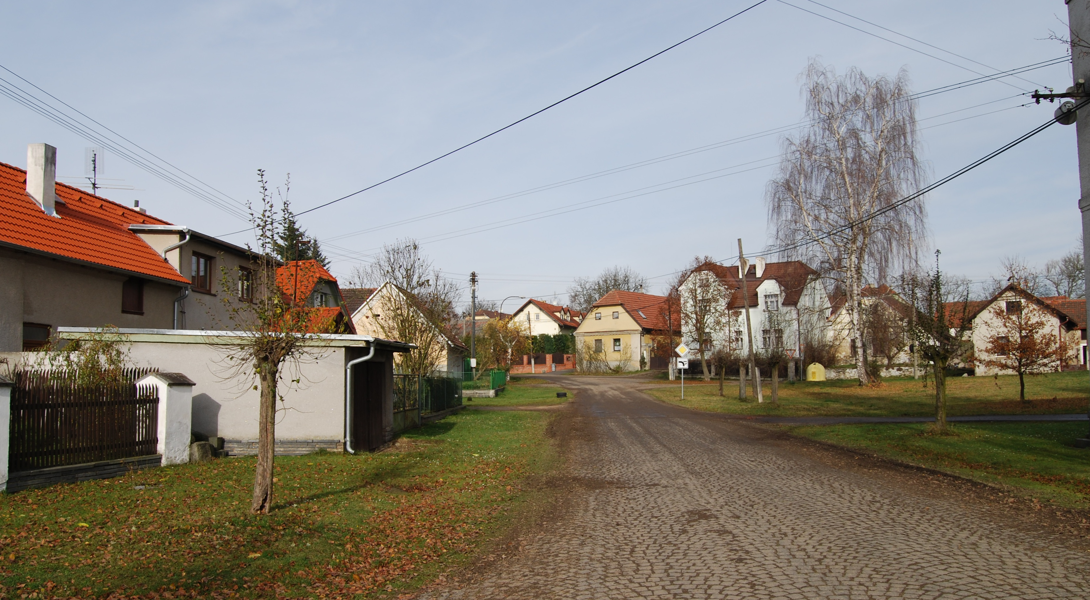 Koupě village in Příbram District, Czech Republic.